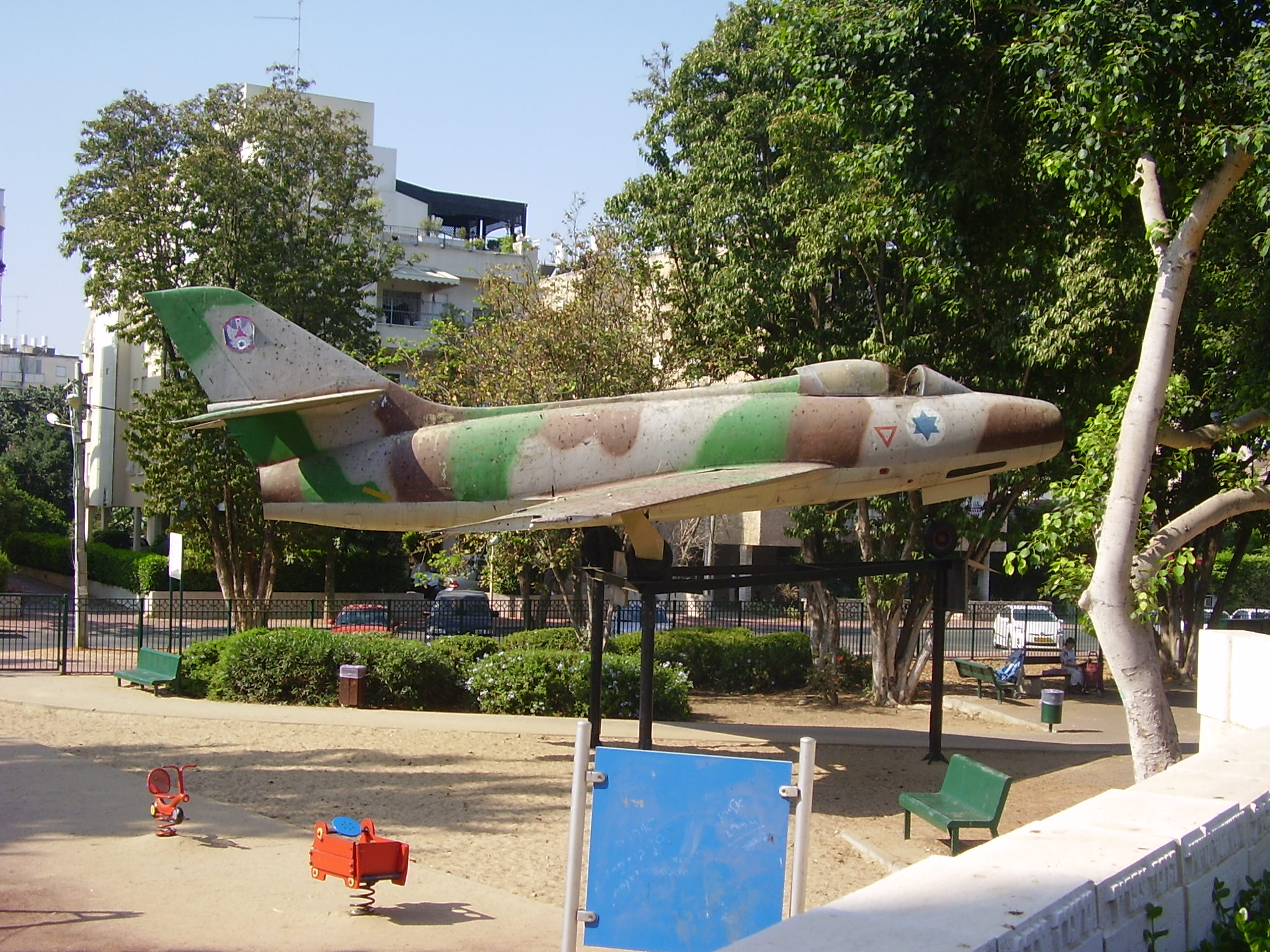 Memorial to Pilot Chaim Holtzman in Rehovot